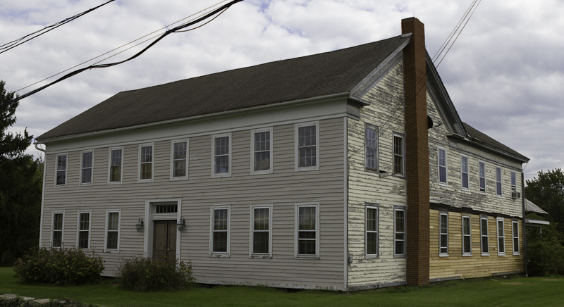 Charles Frank House and Store